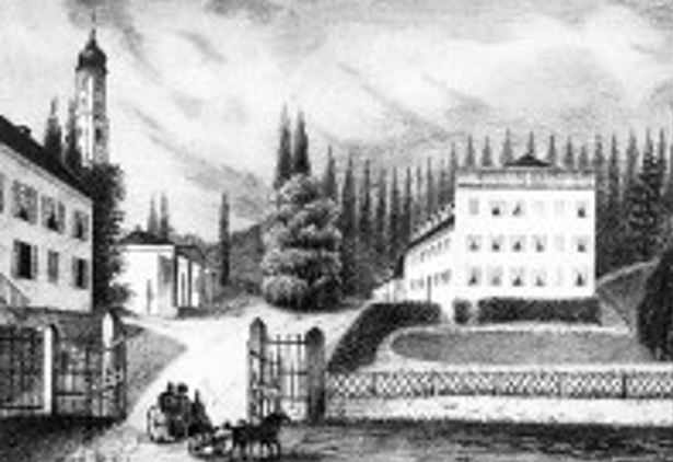 Schloss Inzigkofen. Lithographie um 1830